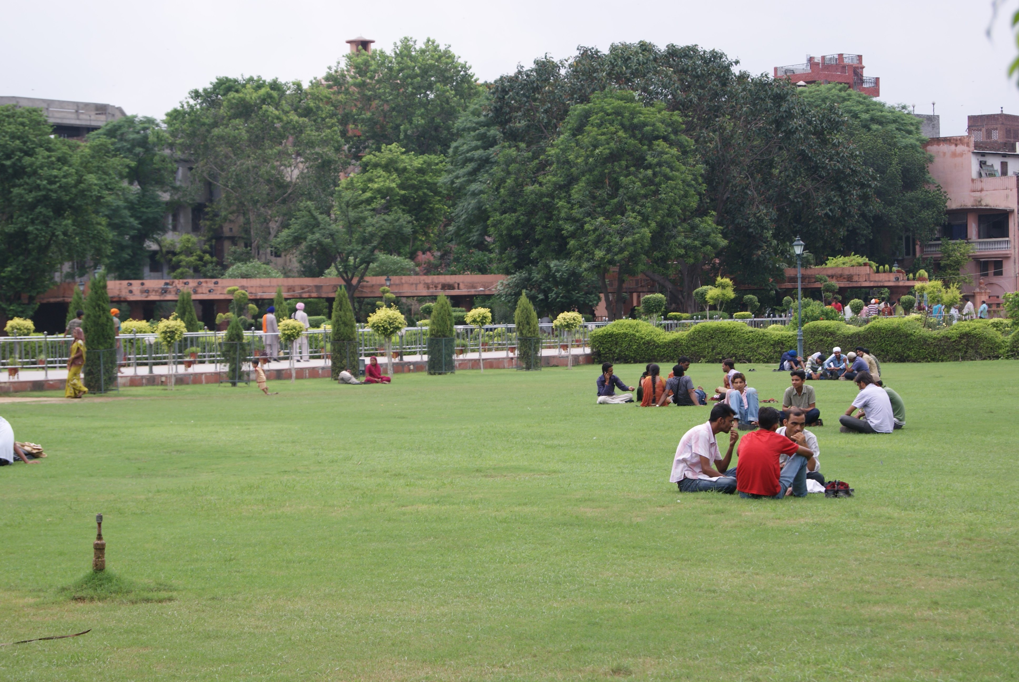 Jallinwala Bagh, site of Amristar Massacre, Amritsar, Punjab, India